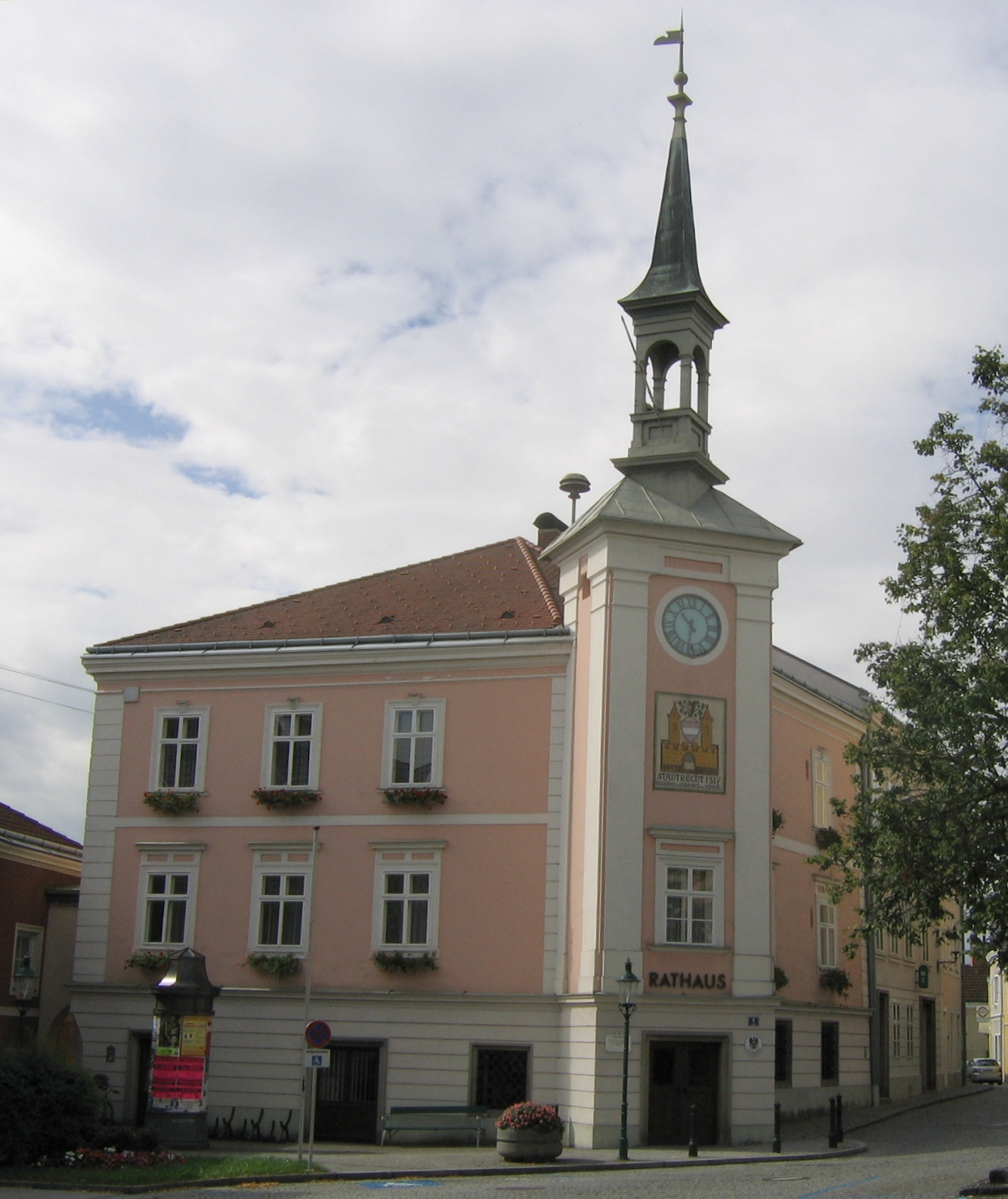 Ybbs, Austria, town hall